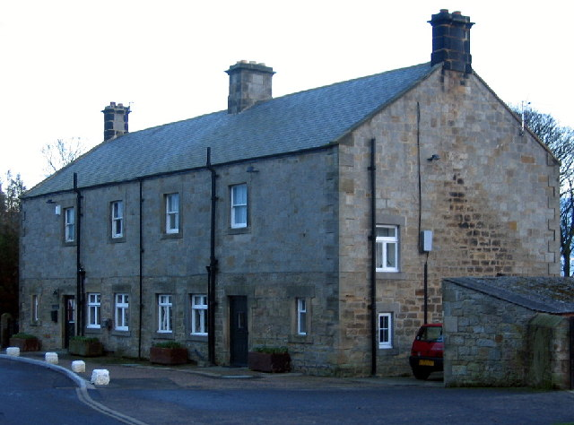 Farm Building, Glororum. Amazingly, there are two places in Northumberland with this strangely beautiful name. Both are Farm Settlements but the one near Bamburgh is more famous as the sight of a large Caravan Park. This one has some very interesting early 19th century farm buildings which now look as if they have been converted into holiday homes. The name is apparently a corruption of "Glower-o'er-him" according to GENUKI.